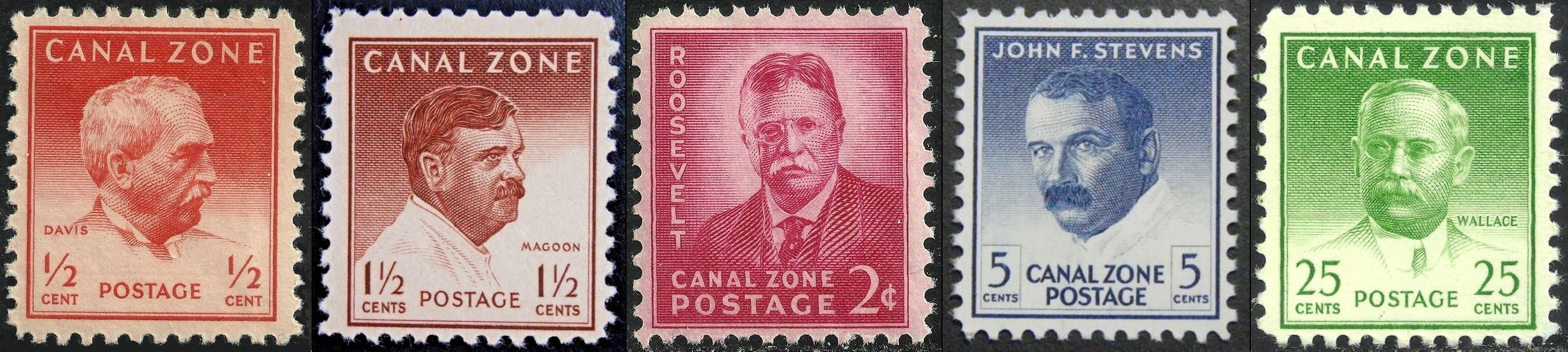 Canal Zone 1946-1949 Issues, composite image of 5 stamps